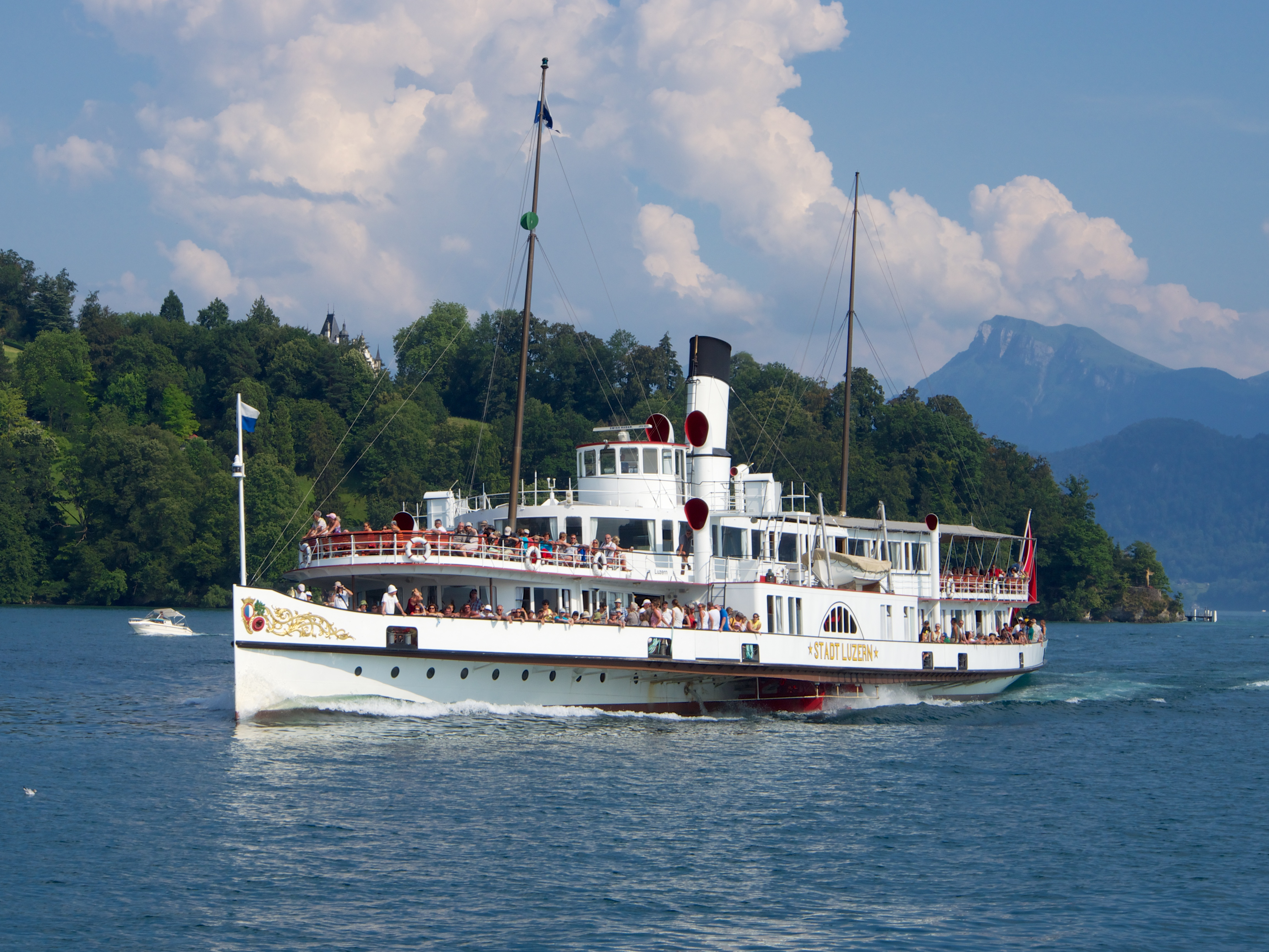 Lake Lucerne paddle steamer "Stadt Luzern"